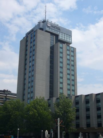 Utrecht, NH Hotel